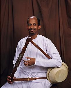 A musician playing the krar